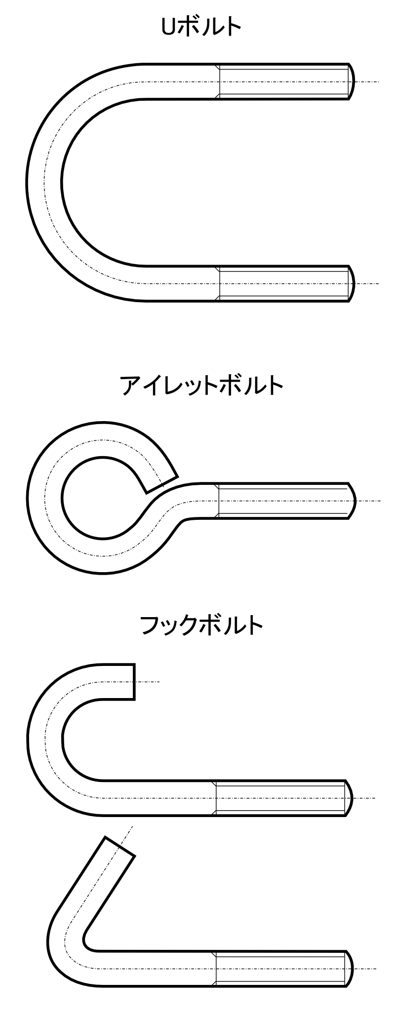 Screw (bolt)_21C-J.PNGScrew (bolt)_21C-J.PNGScrew (bolt)_21C-J.PNGScrew (bolt)_21C-J.PNGScrew (bolt)_21C-J.PNGScrew (bolt)_21C-J.PNGScrew (bolt)_21C-J.PNGScrew (bolt)_21C-J.PNGScrew (bolt)_21C-J.PNGScrew (bolt)_21C-J.PNGScrew (bolt)_21C-J.PNGScrew (bolt)_21C-J.PNGScrew (bolt)_21C-J.PNG